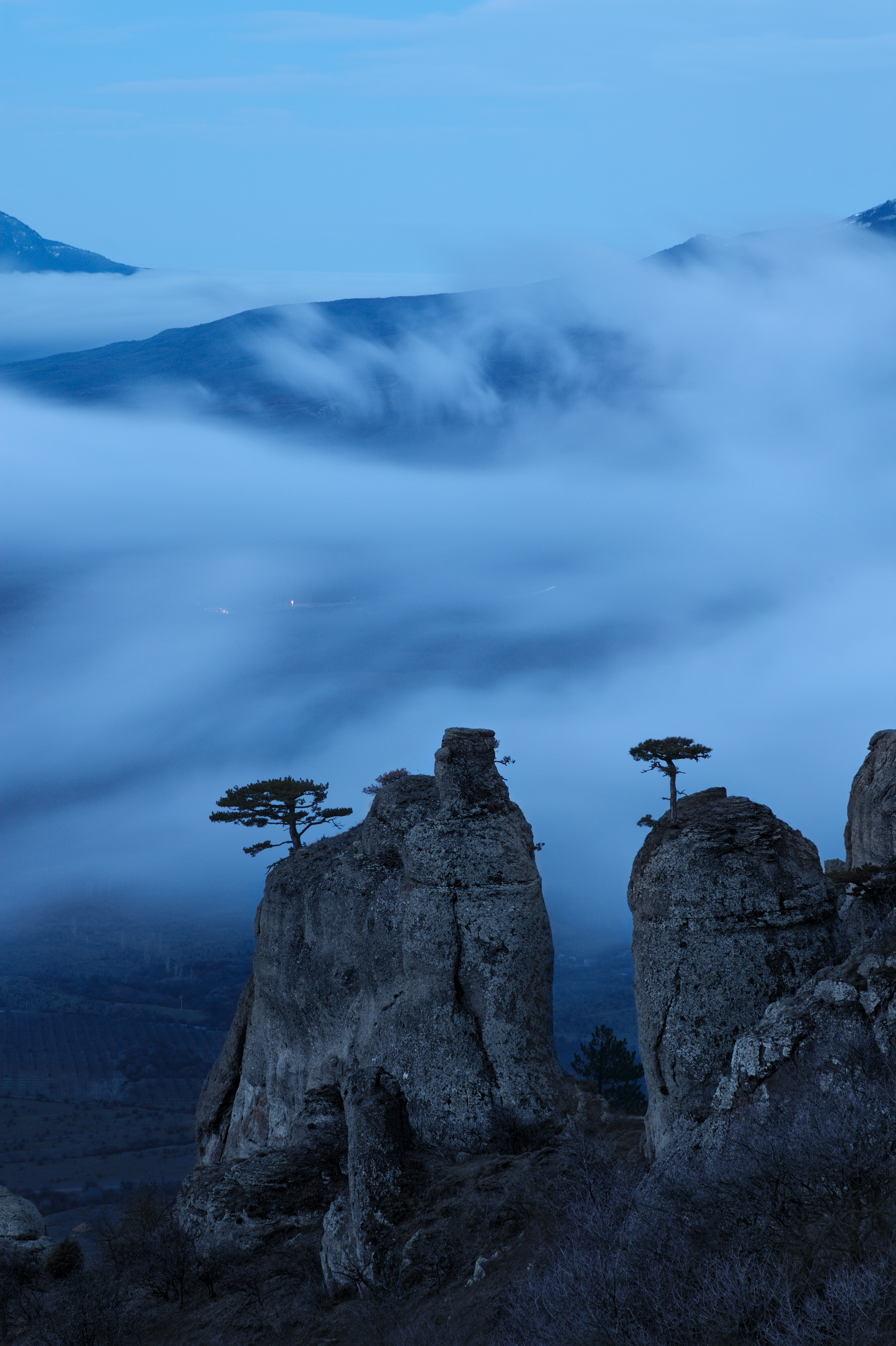 Demerdji, Ukraine